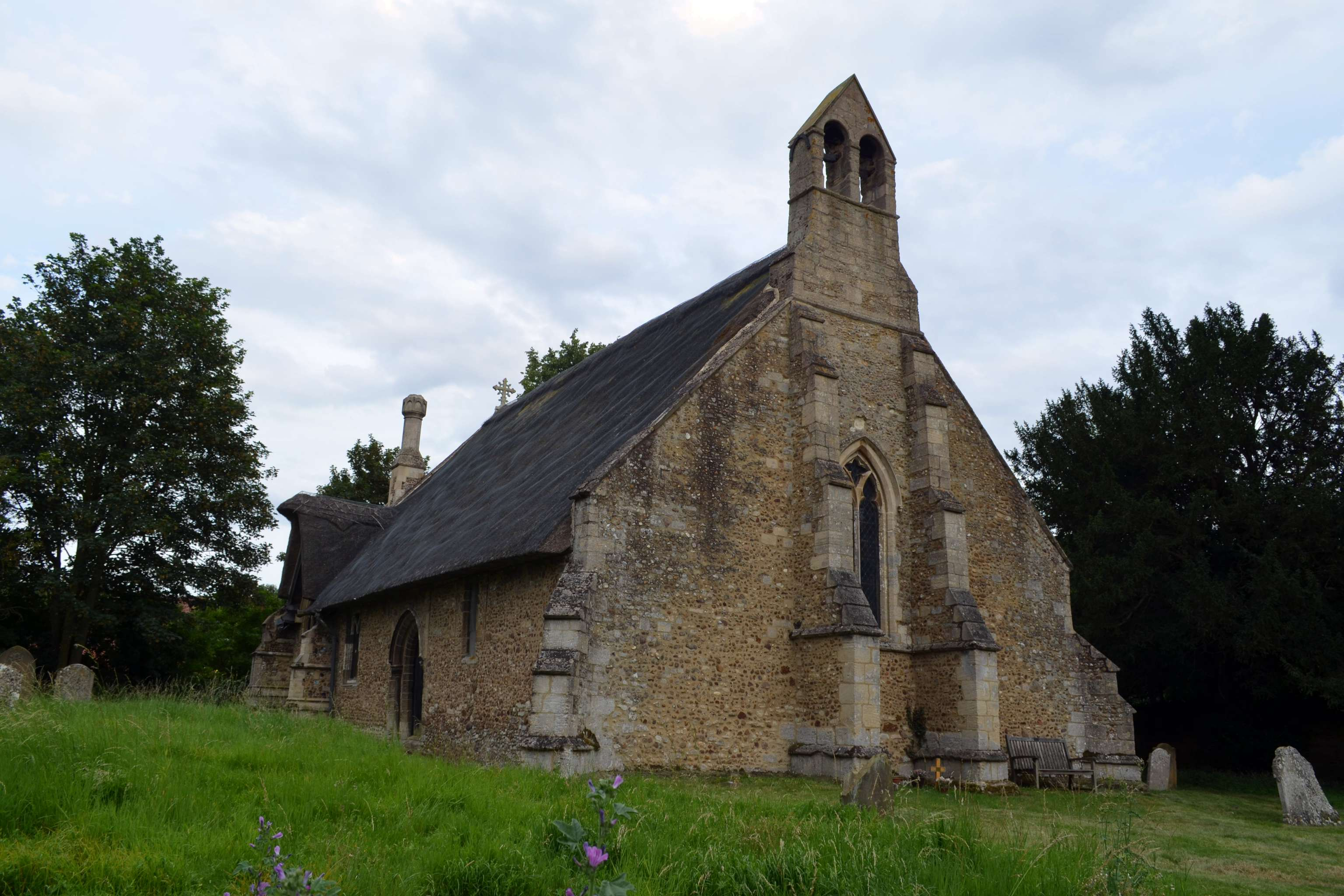 St Michael's Church, Longstanton, Cambridgeshire, England viewed from the northwest in July 2014.